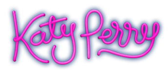 Nuevo logo de Katy Perry